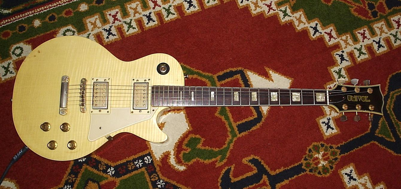 My own photo.